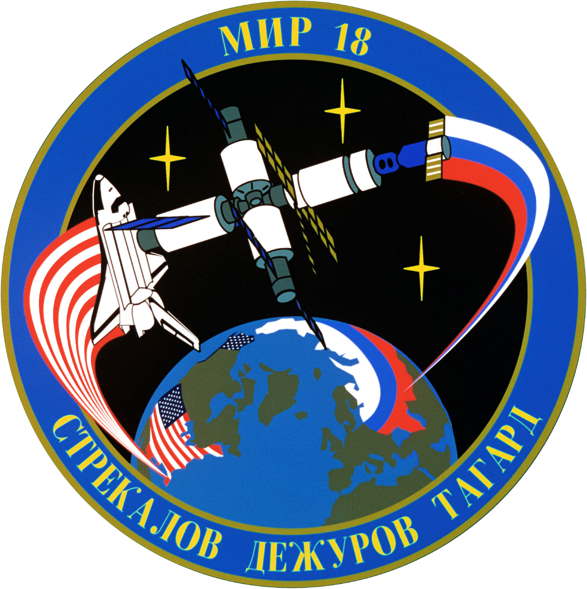 The official crew patch for the Russian Soyuz TM-21 mission, which delivered the EO-18 crew to the space station Mir.